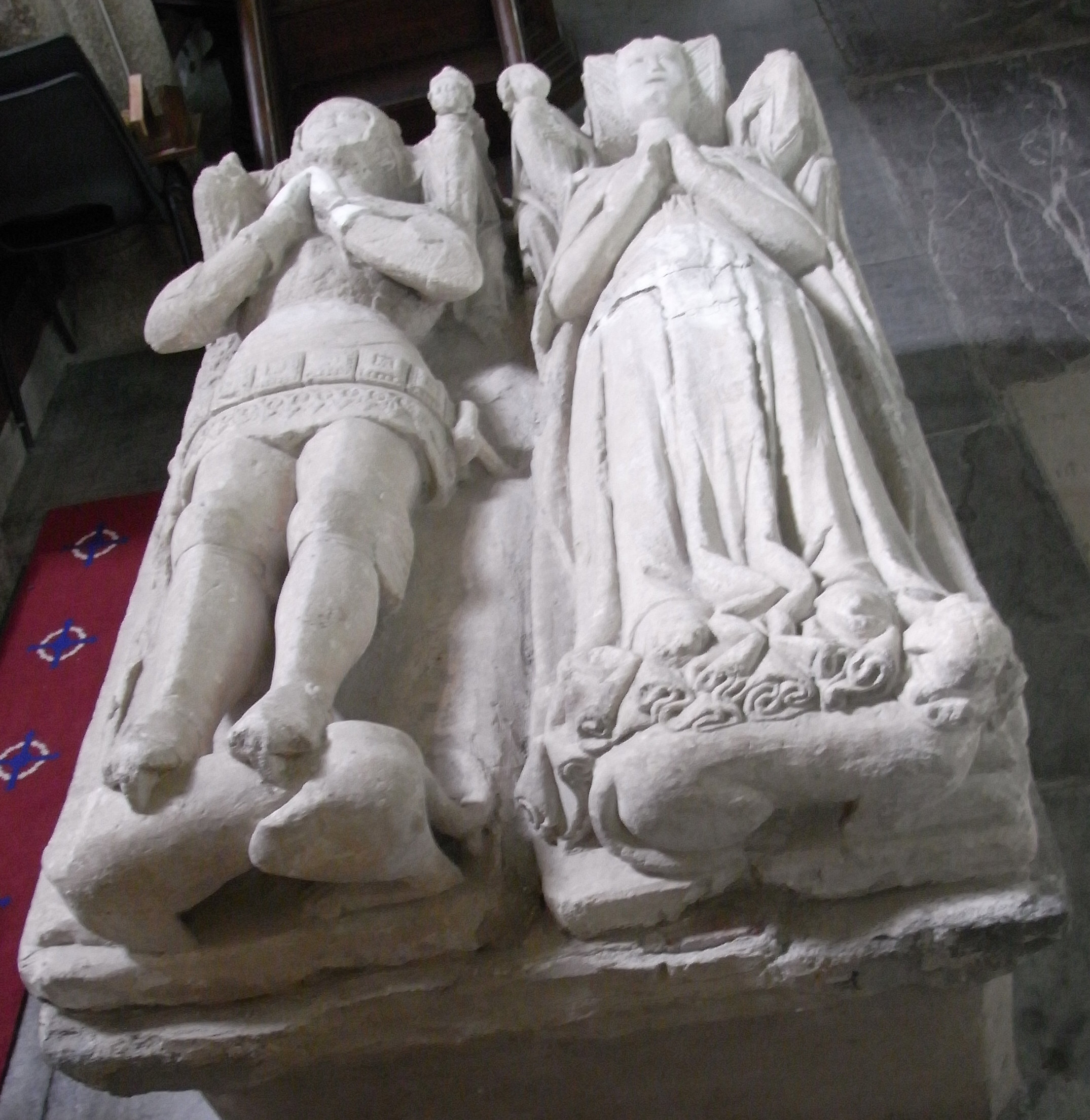 Effigies of Gorges couple, St Mary's Church, Tamerton Foliot, Devon